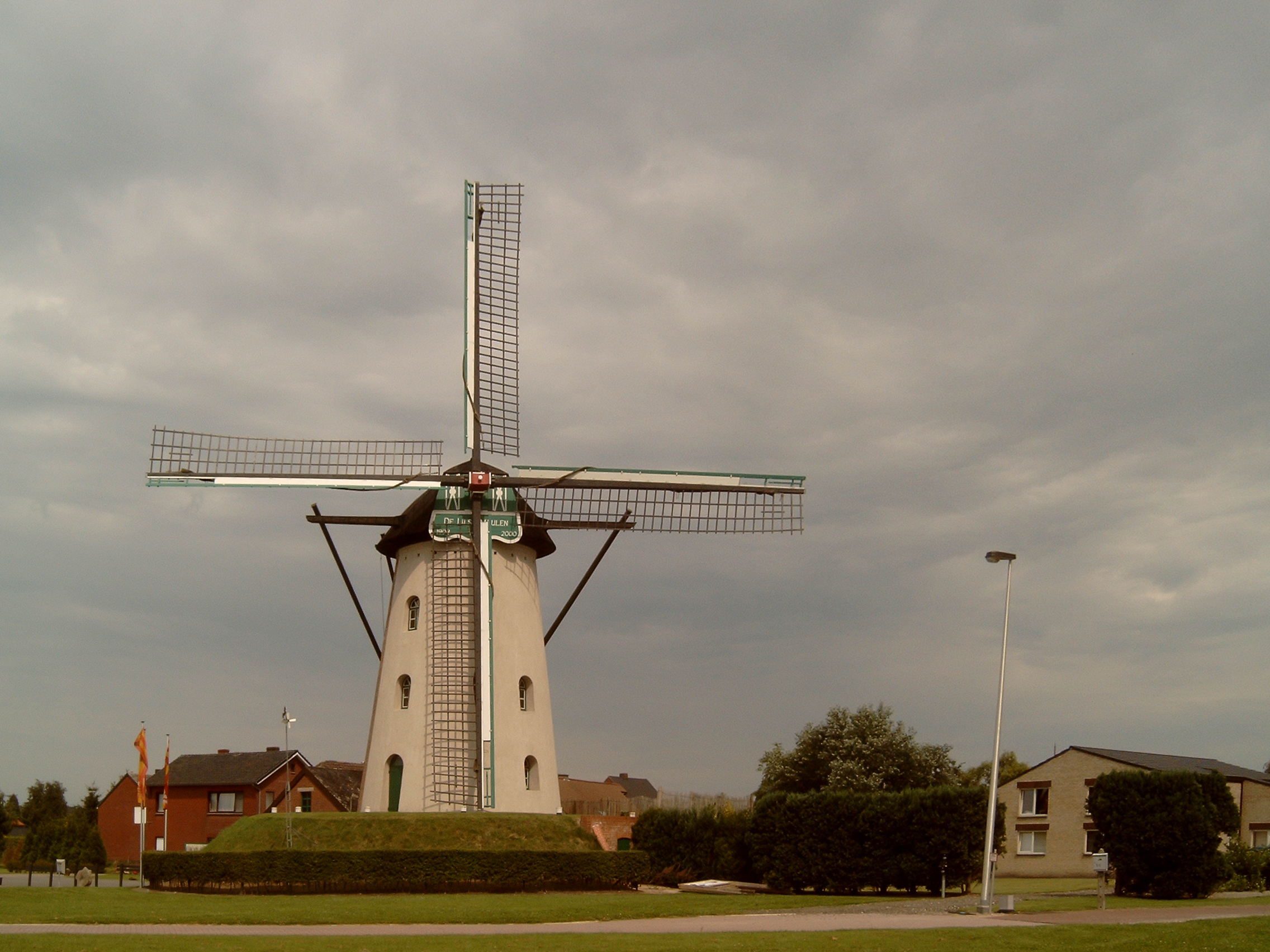 St Huibrechts Lille, windmill